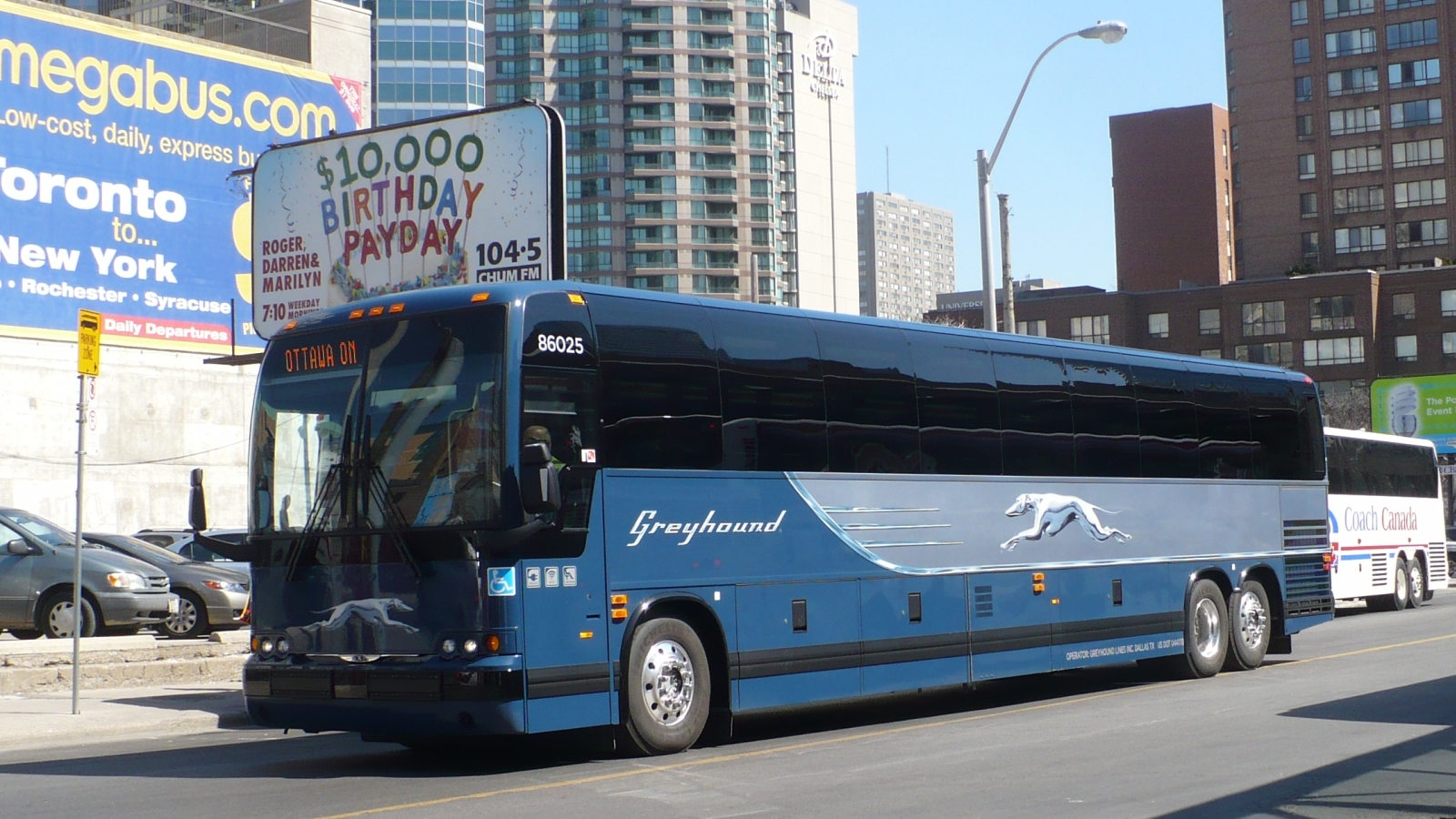 Greyhound bus in the new 2009 livery, leaving the Toronto Coach Terminal heading for Ottawa. This is a Canadian route being serviced by an American bus out of Dallas, Texas.